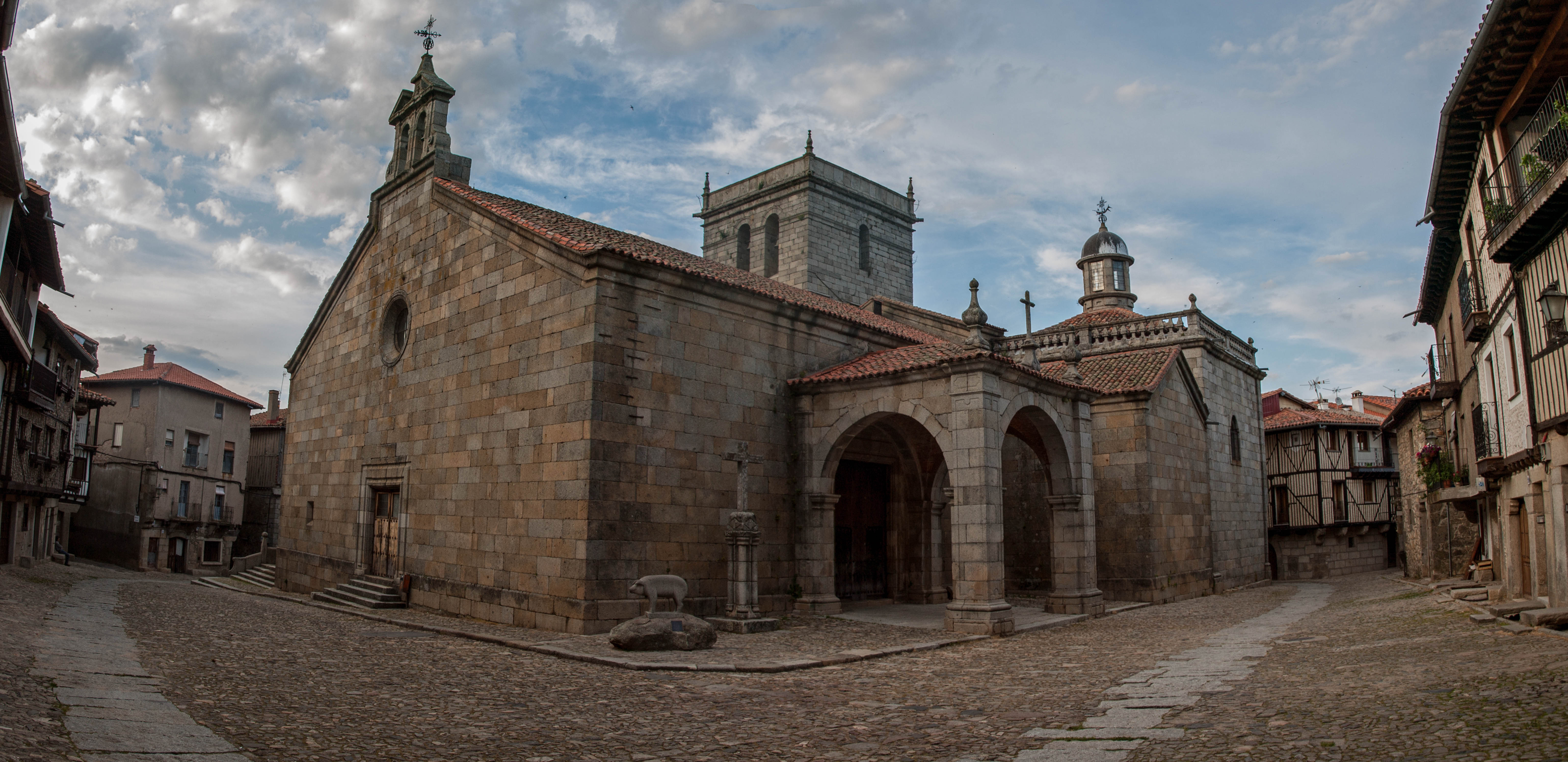 Parish church in La Alberca. The pig's statue is a modern addition